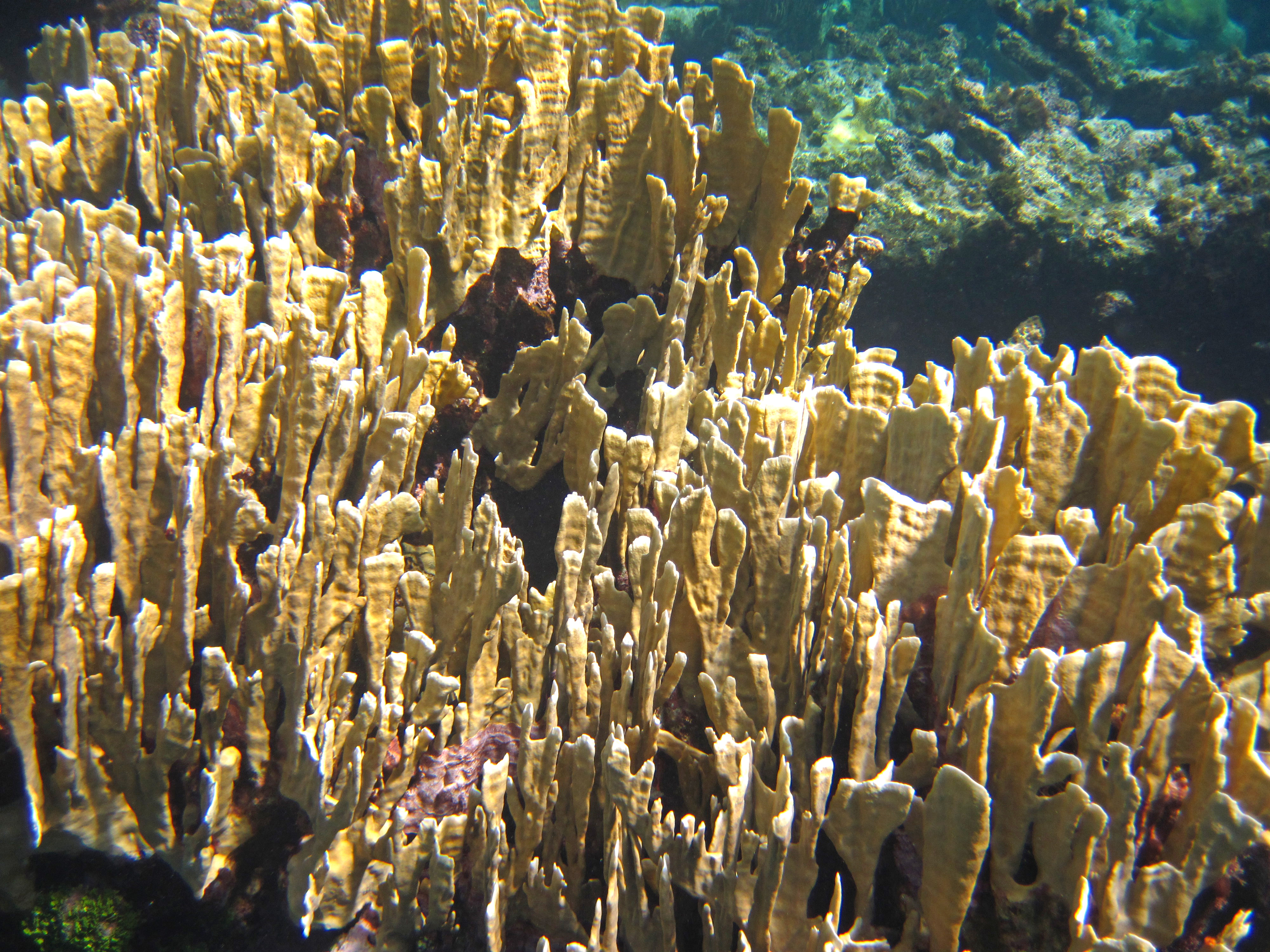 Millepora complanata (Lamarck, 1816) - bladed fire corals in a patch reef. These upright structures are calcareous skeletons of colonies of hydrozoan polyps. They are not true stony corals - fire corals are hydrozoans while true stony corals are anthozoans. Nematocysts in the tentacles of the small polyps deliver a painful sting. The skeleton of Millepora complanata has a wrinkled bladed form. Another species, Millepora alcicornis, also occurs in patch reefs around San Salvador Island - it has a complexly branching skeleton. Classification: Animalia, Cnidaria, Hydrozoa, Milleporidae Locality: Gaulin Reef, northern Graham's Harbour, offshore from the northern shoreline of San Salvador Island, eastern Bahamas